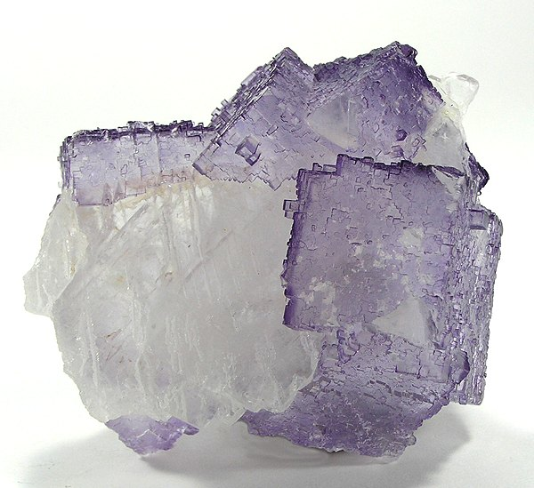 Fluorite, Celestine Locality: Municipio de Melchor Múzquiz, Coahuila, Mexico (Locality at ) Fluorites from Musquiz are immediately recognized by their complex and beautiful stepped surfaces. This specimen features large, translucent purple crystals to 3 cm across the edge, wrapped around a flat crystal of celestine! The back side is all fluorite. There are some cleaves, but due to the nature of these fluorites they are not all that distracting. 8.1 x 6.6 x 4.0cm